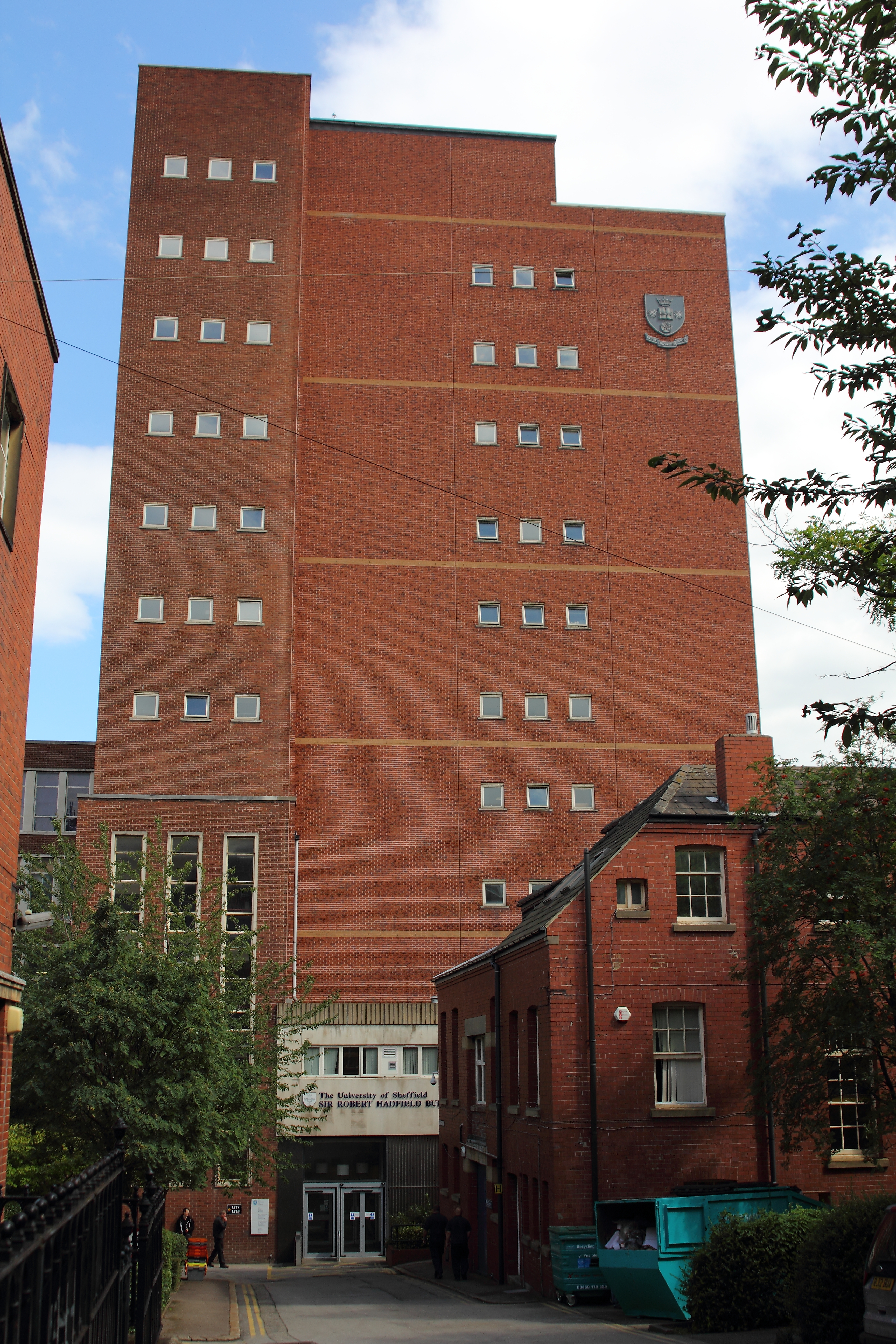 Shefuniroberthadfield2012